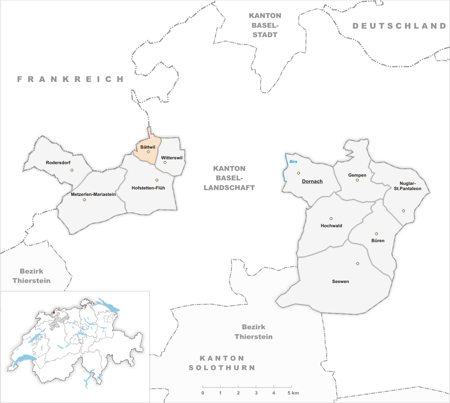 Municipality Bättwil